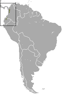 Blackish Shrew Opossum (Caenolestes convelatus) range